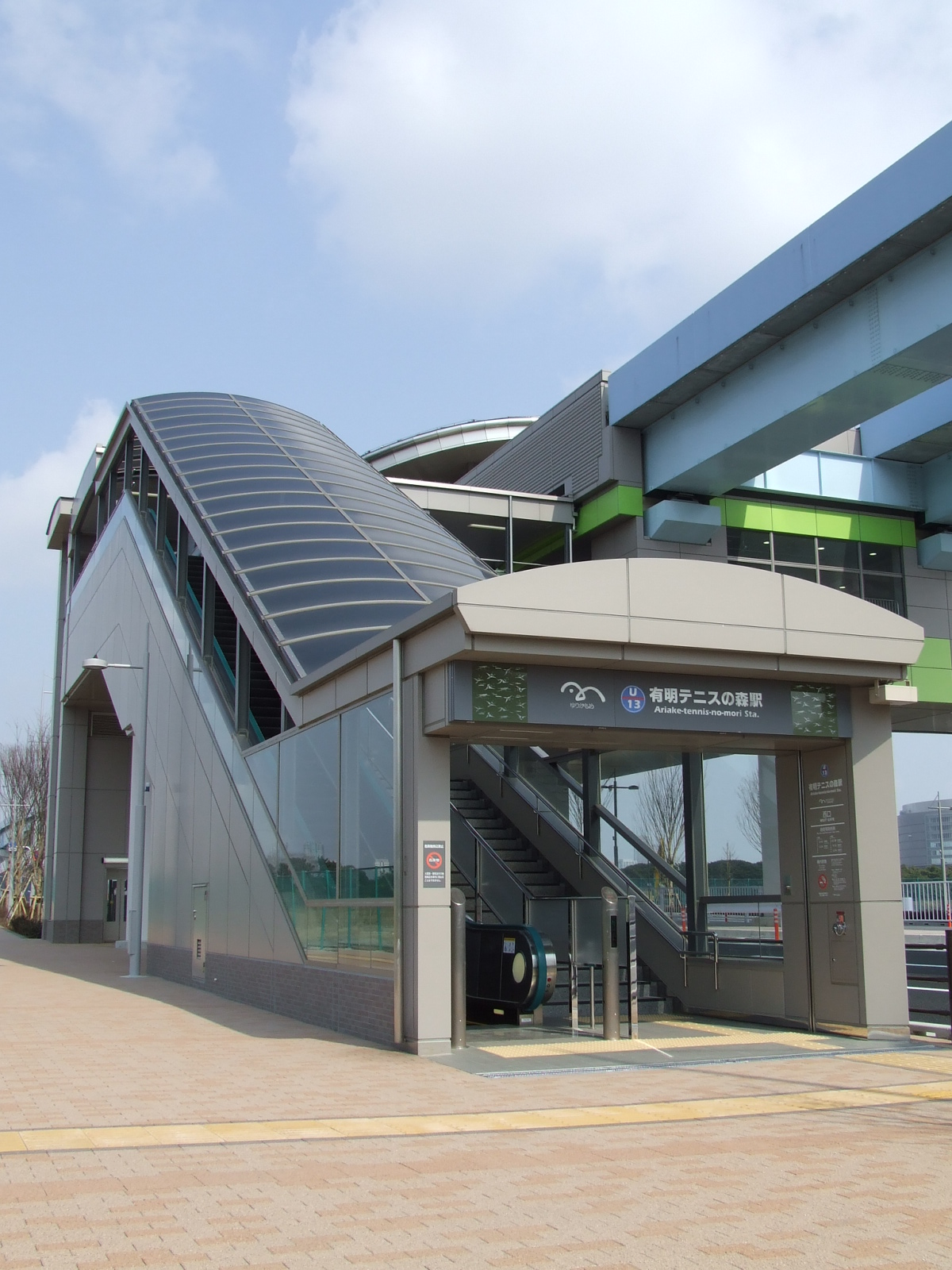 Building of Ariake-tennis-no-mori station, Yurikamome, Japan